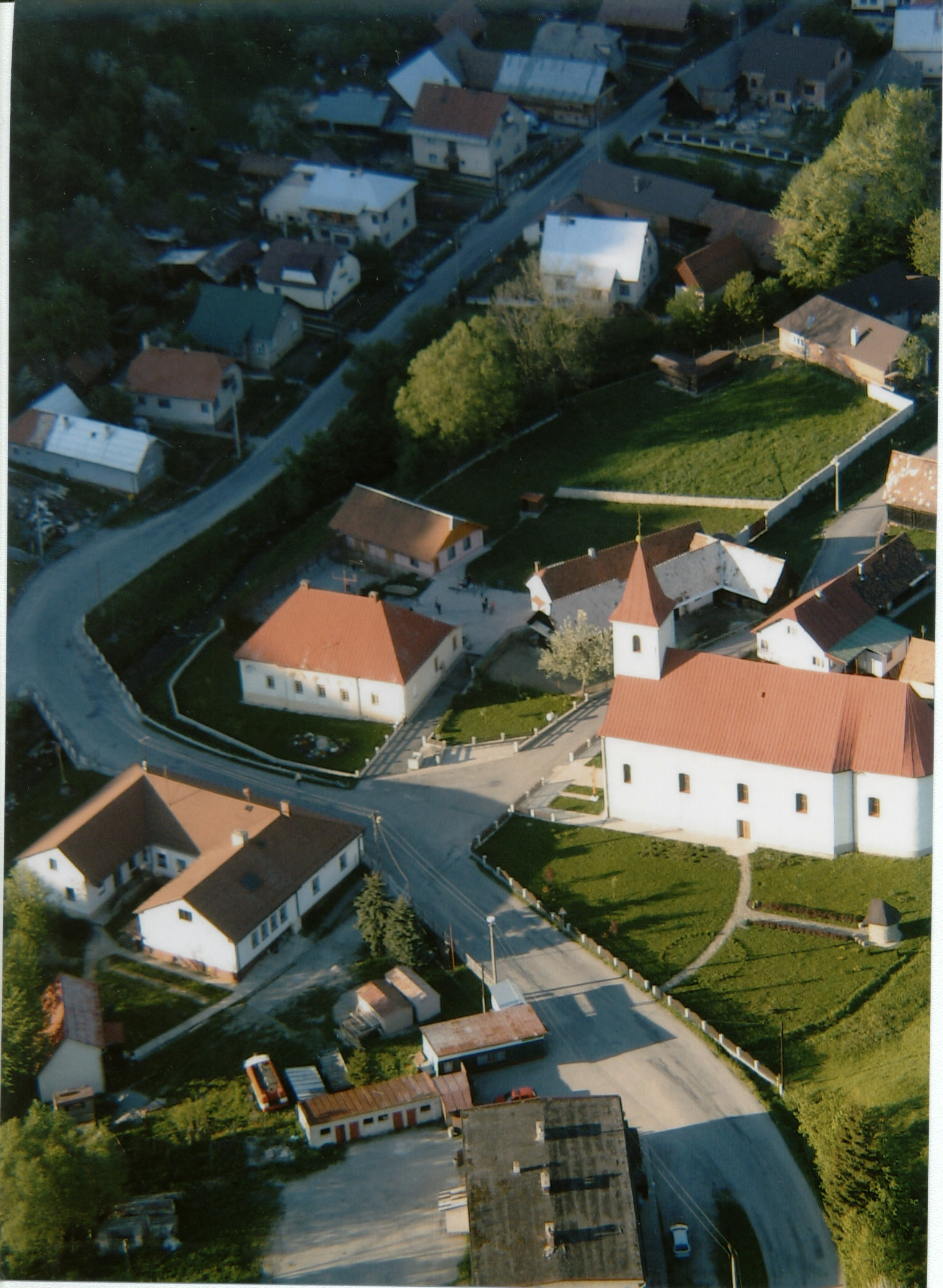 Horny Vadicov centrum